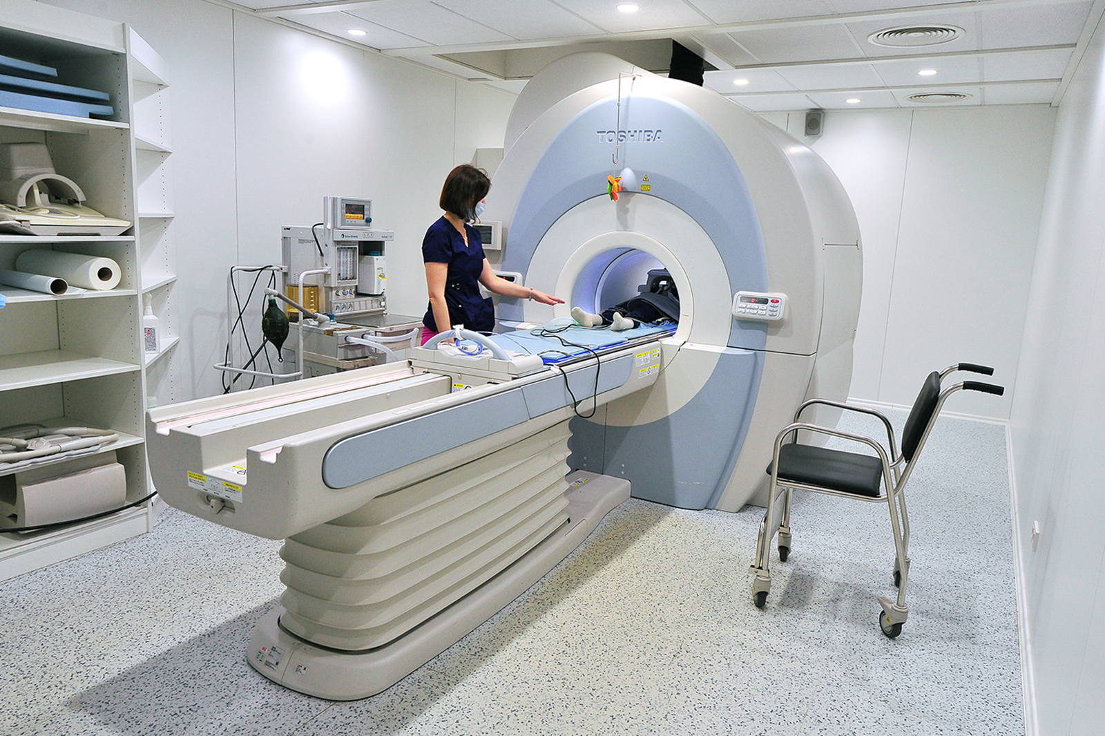 Vantage Atlas MRI scanner from Toshiba